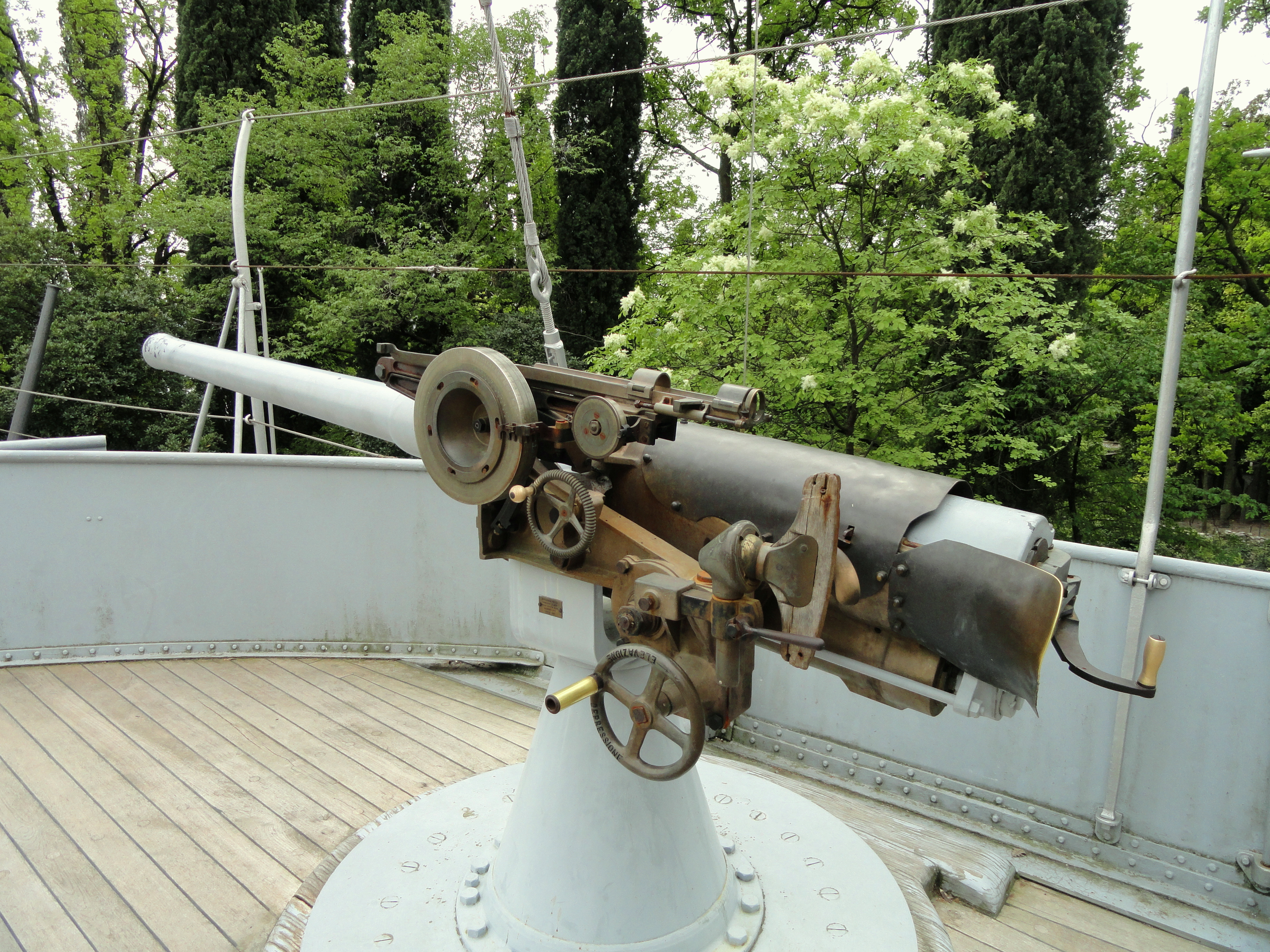 The light cruiser Puglia, at the Vittoriale degli italiani, in Gardone Riviera, on Lake Garda, Brescia, Italy.